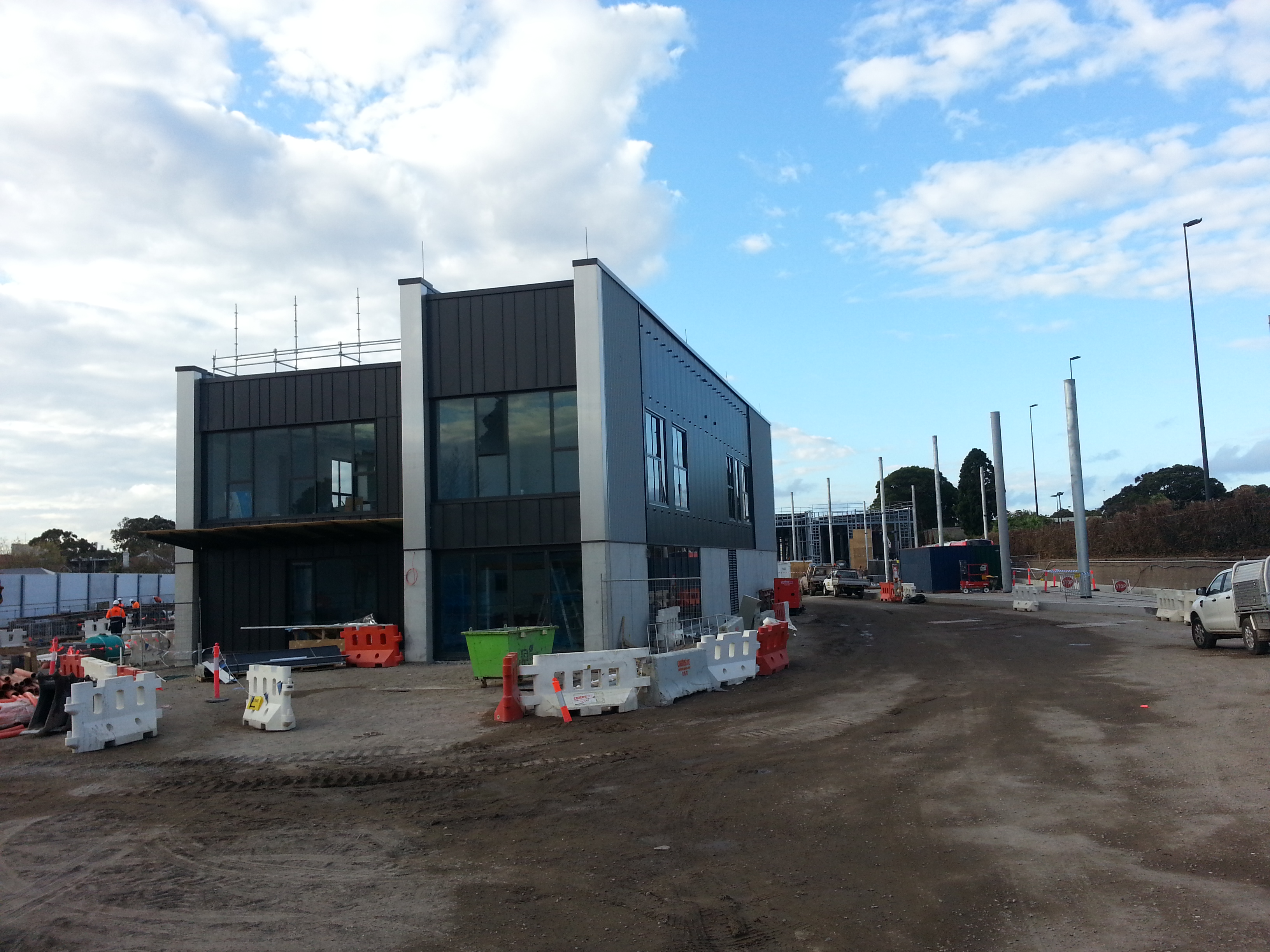 Depot of the CBD and South East Light Rail, under construction as of August 2017